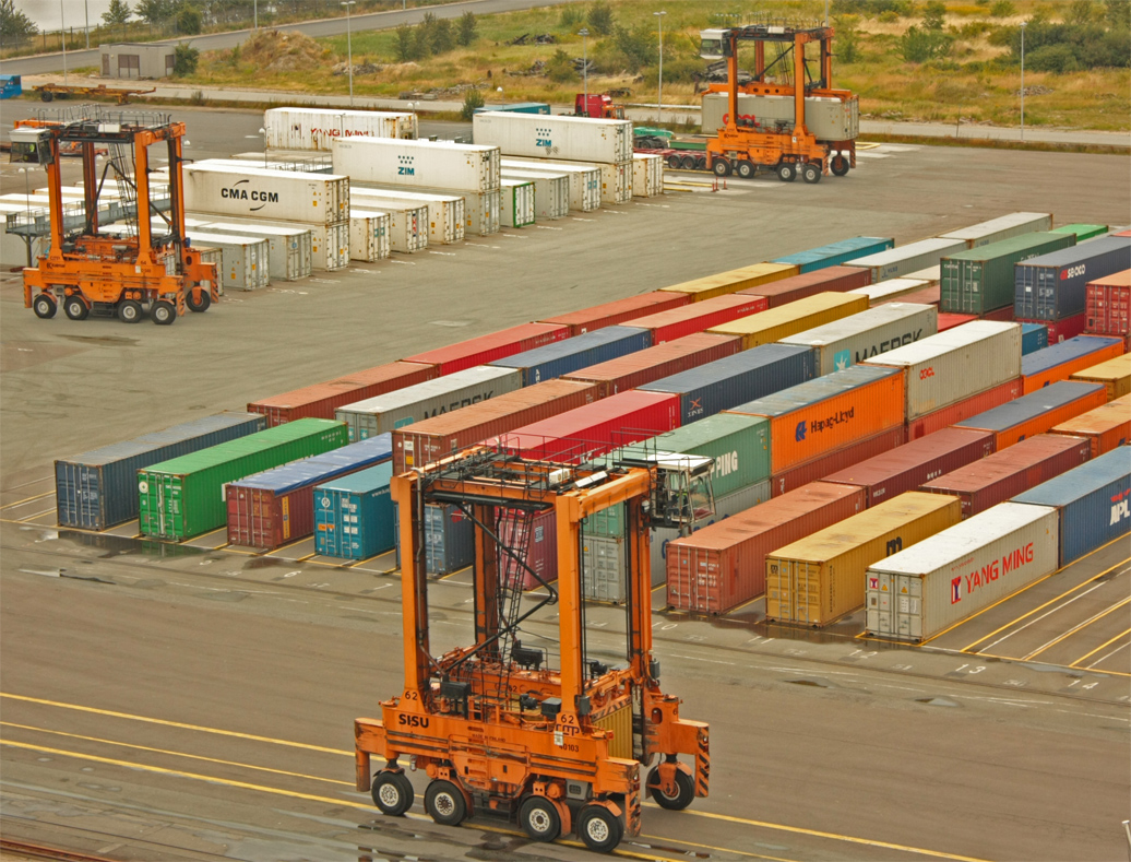 Container carrier at Copenhagen harbour